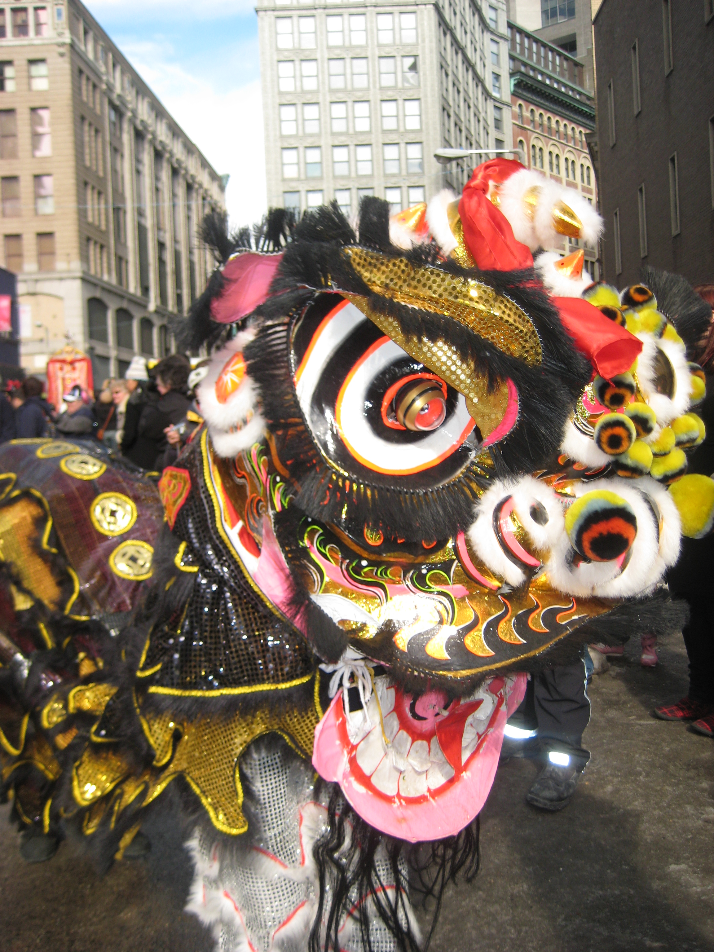 Lion dance at Chinese New Year festival in Chinatown. February 2009 photo by John Stephen Dwyer